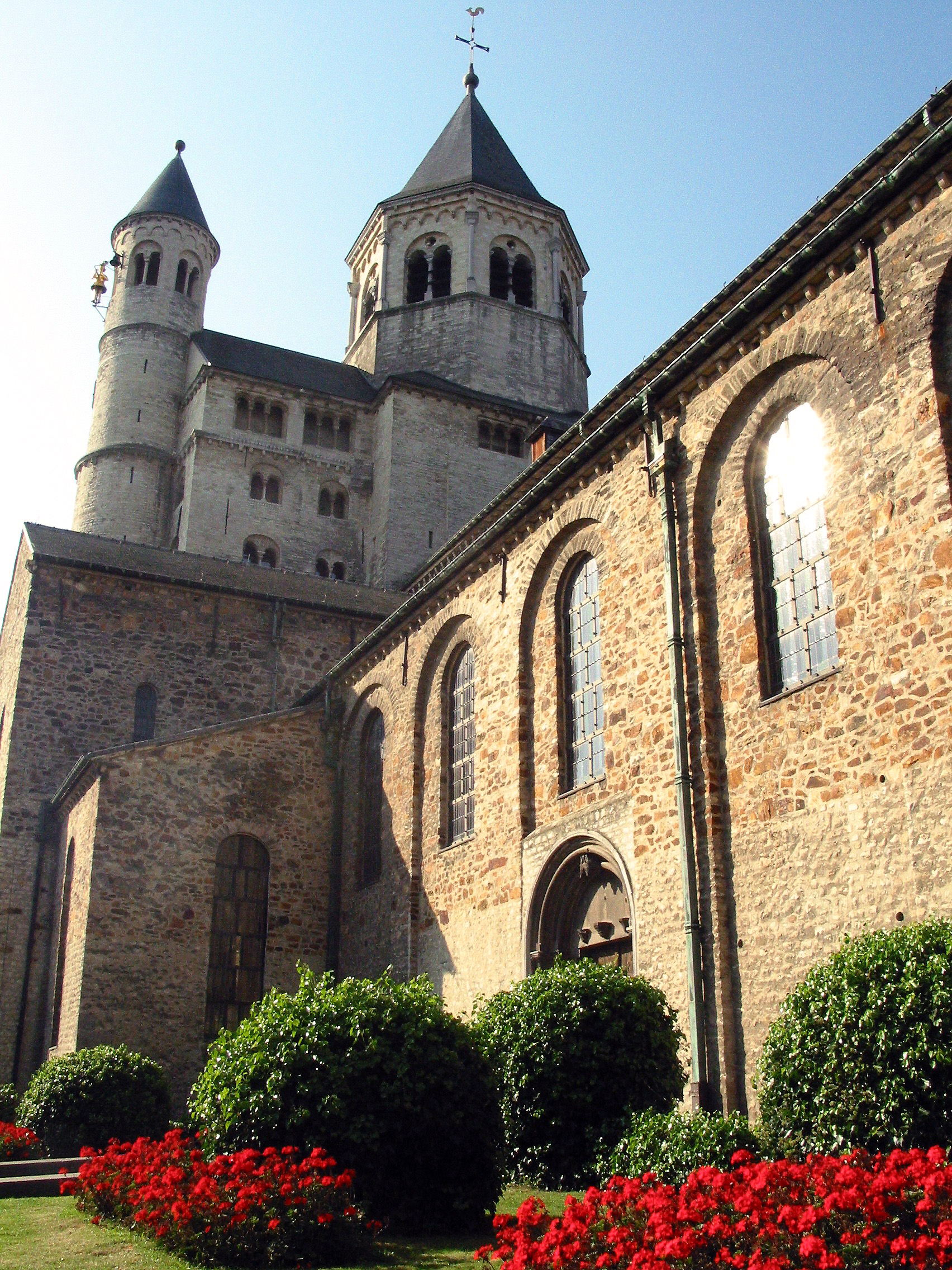 Nivelles (Belgium), fore-part and southern door of the Saint Gertrude Collegiate church (XI/XIIIth century). Walon: Nivèle (Bèljike), avant-cwârps èt pwate au midi dol coléjiale Sinte-Djèrtrûde (XI/XIIIin.me sièkes).